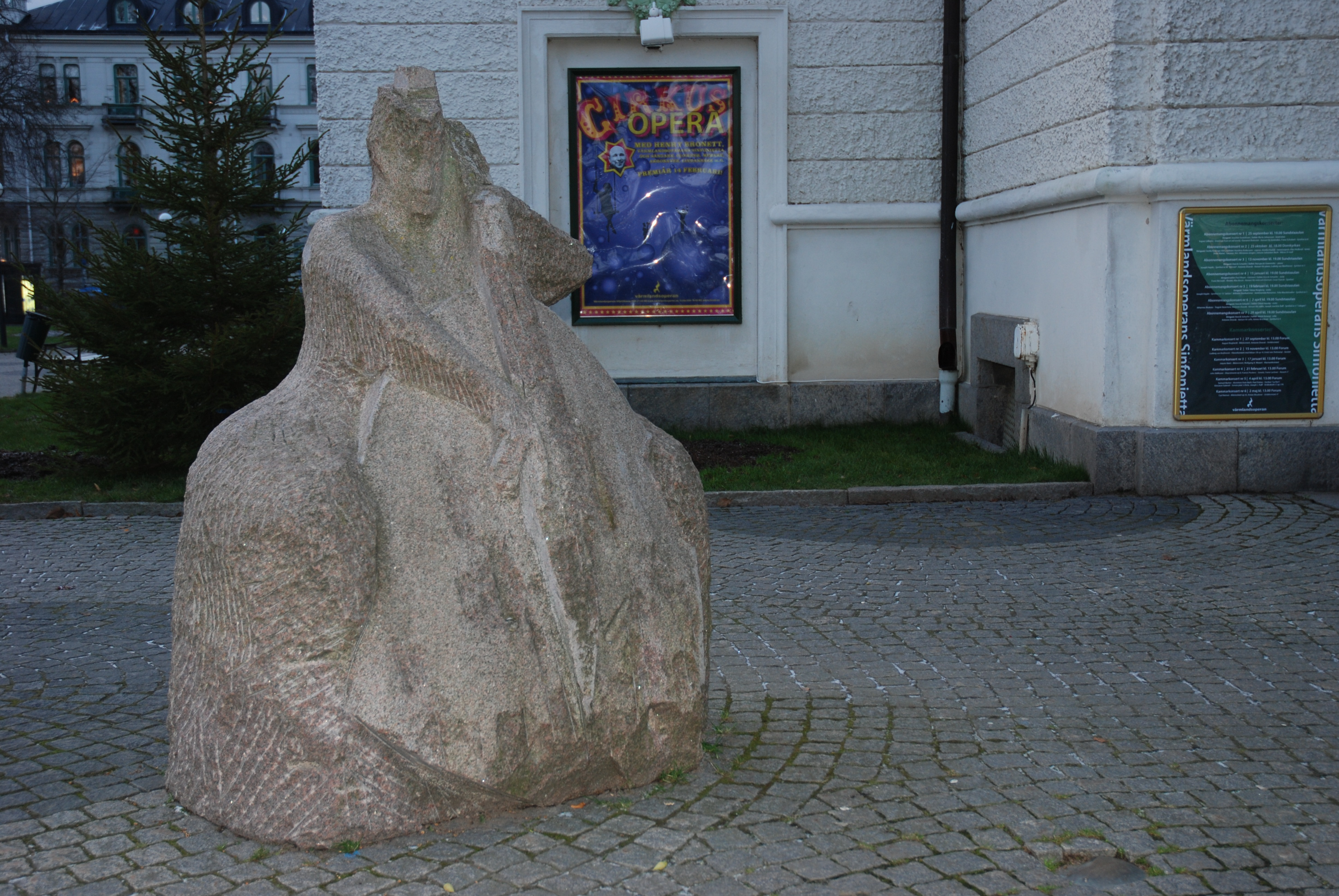 Karlstad, Liv Due, Cellisten